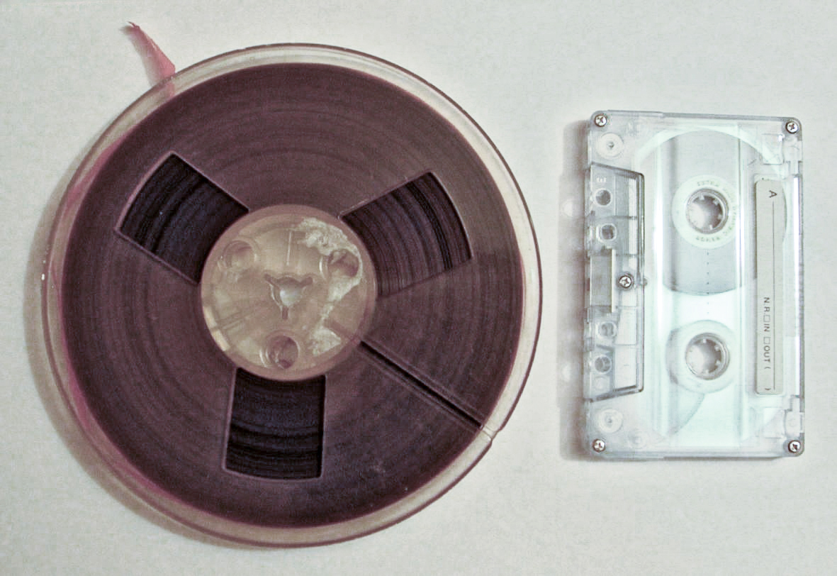 A reel of magnetic tape and a cassette. Design of the shell, with a narrow sticker window, is typical for Saehan of South Korea.